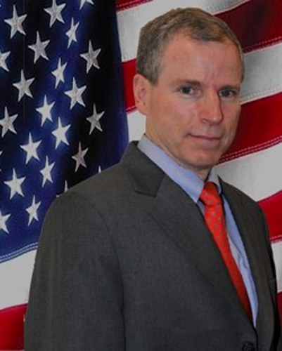 Robert Stephen Ford, U. S. diplomat. As of 2011, United States Ambassador to Syria.